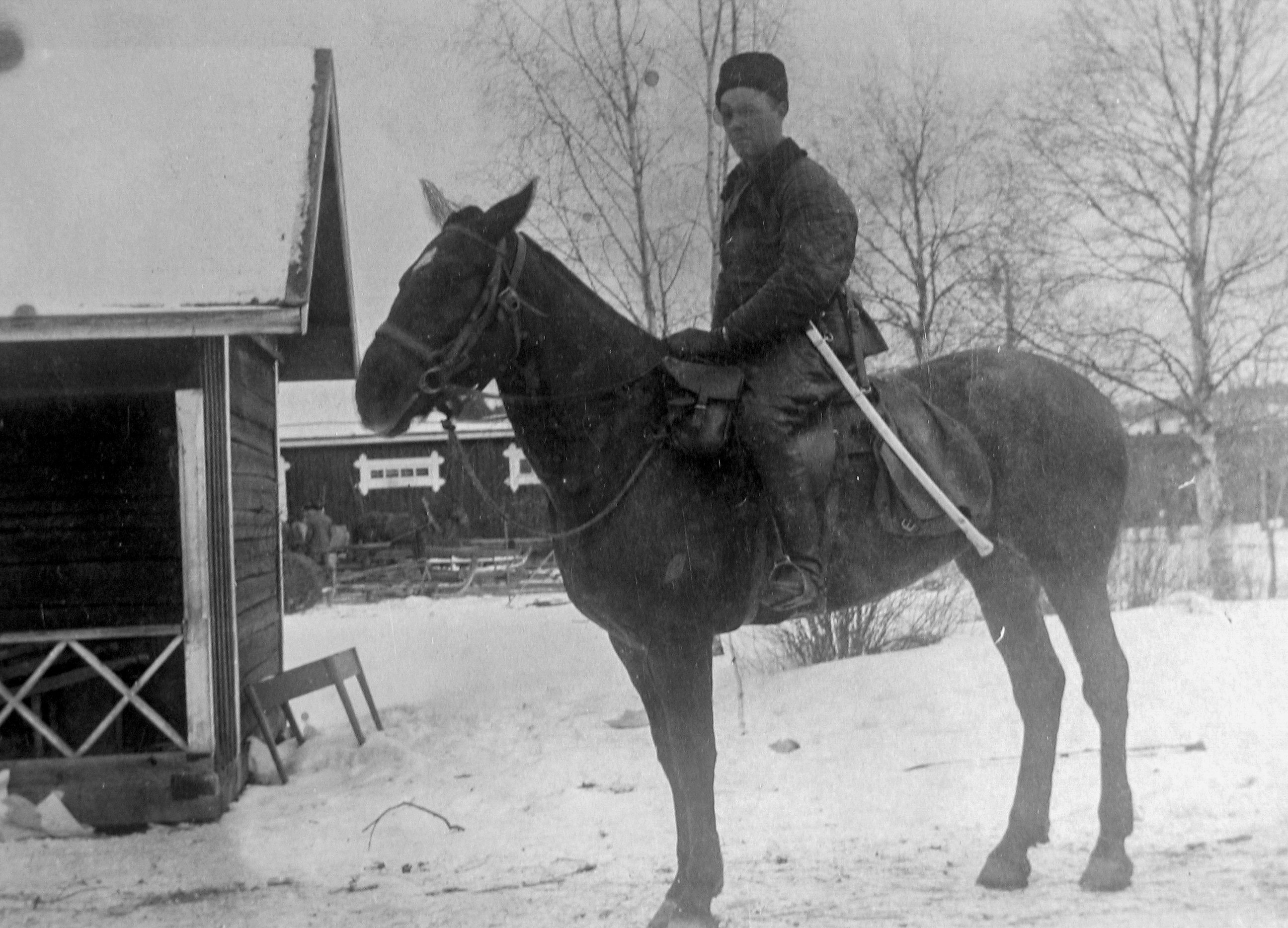 Red Guard Commander Verner Lehtimäki. Pictured in Lyly, Juupajoki